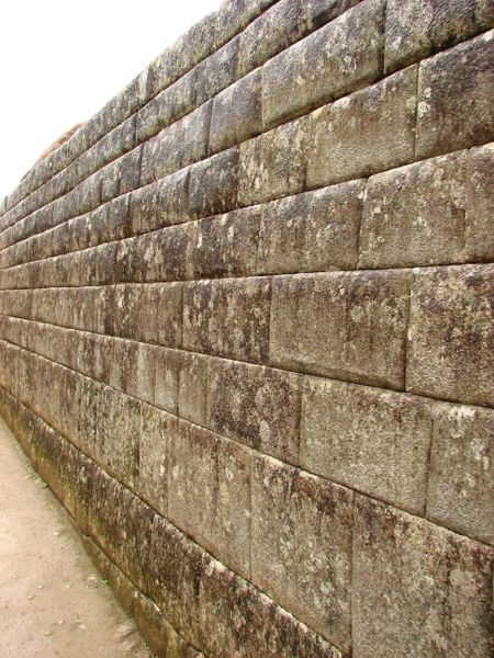 "Inca wall at Machu Picchu. Photograph: Rubyk" (en.wiki). Wall built using the ashlar technique (JackyR).